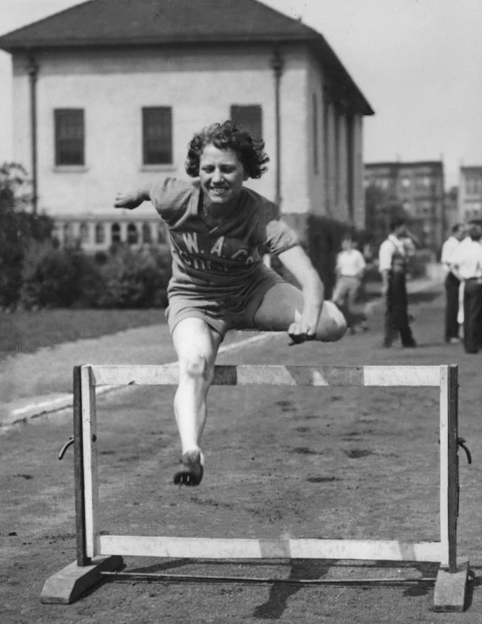 1931 Press Photo Evelyne Hall showing excellent form, seeks High Hurdle title